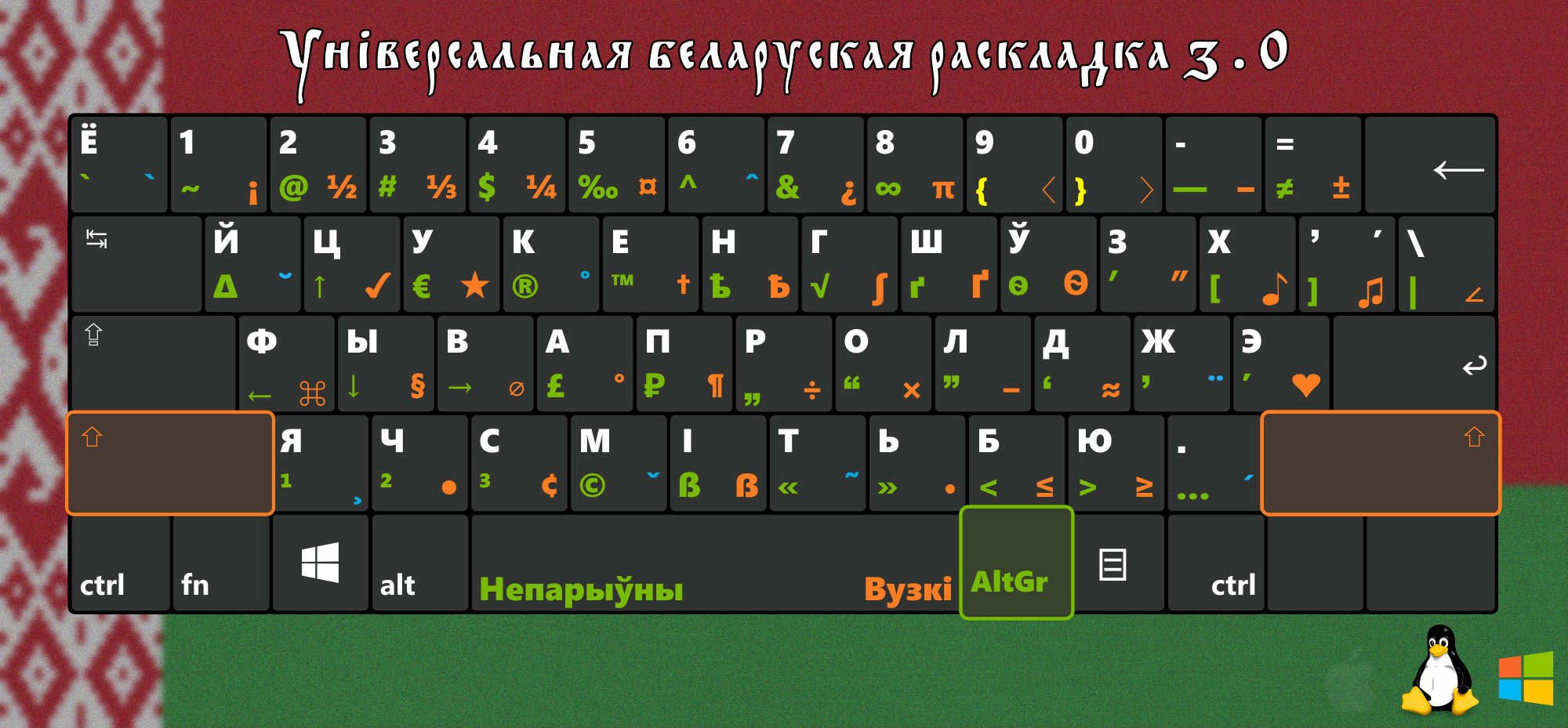 Belarussian universal layout by Danila Isakov